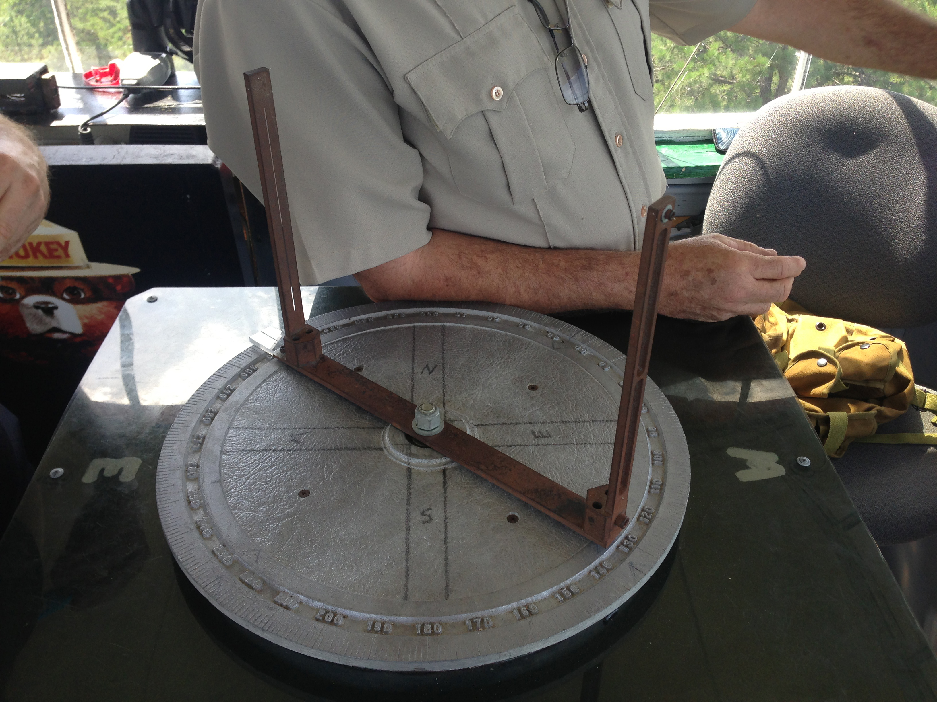 Equipment for triangulating a fire in the fire tower on Apple Pie Hill in Wharton State Forest, Tabernacle Township, New Jersey